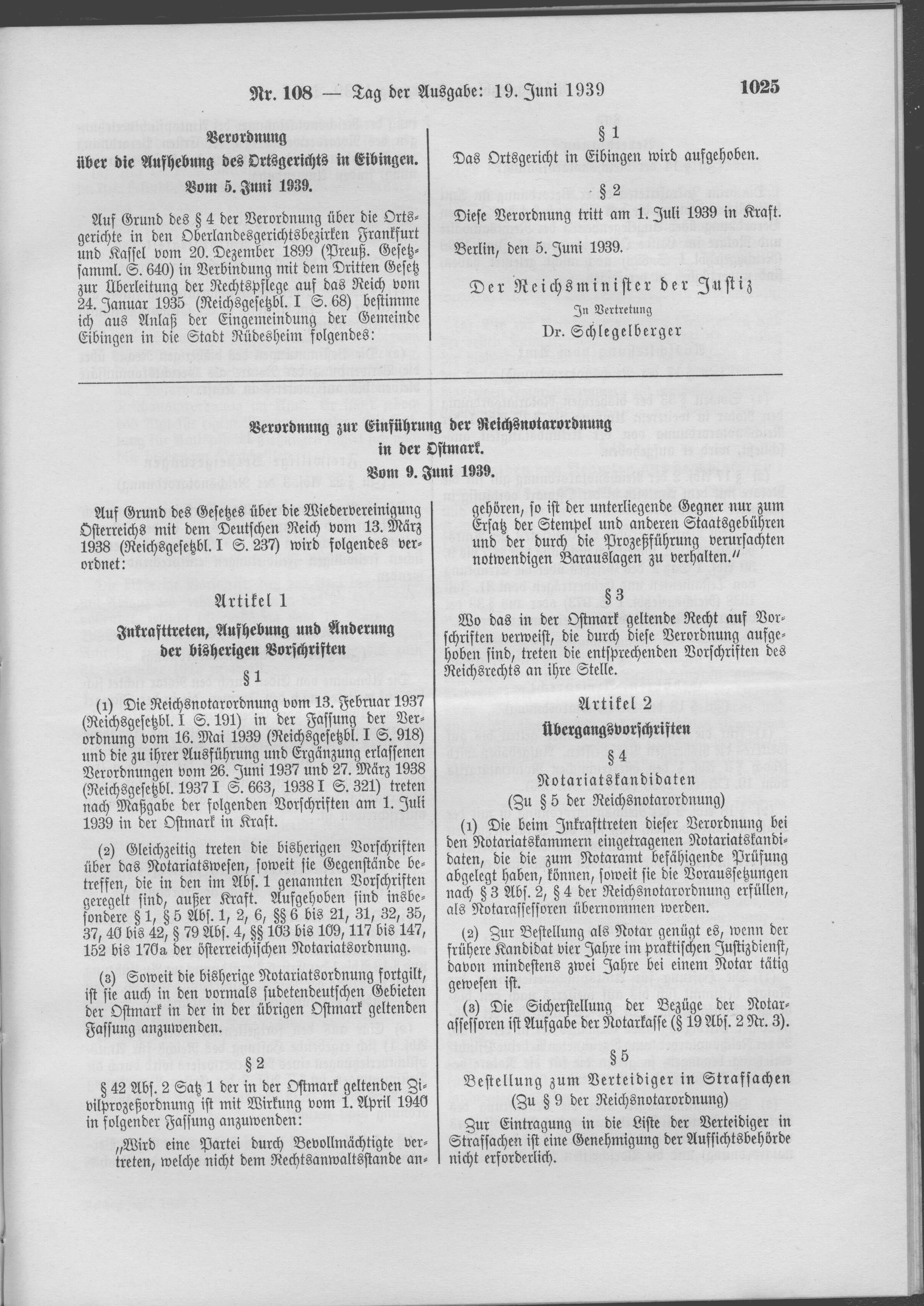 Scan from the Imperial Law Gazette of Germany, 1939, part 1